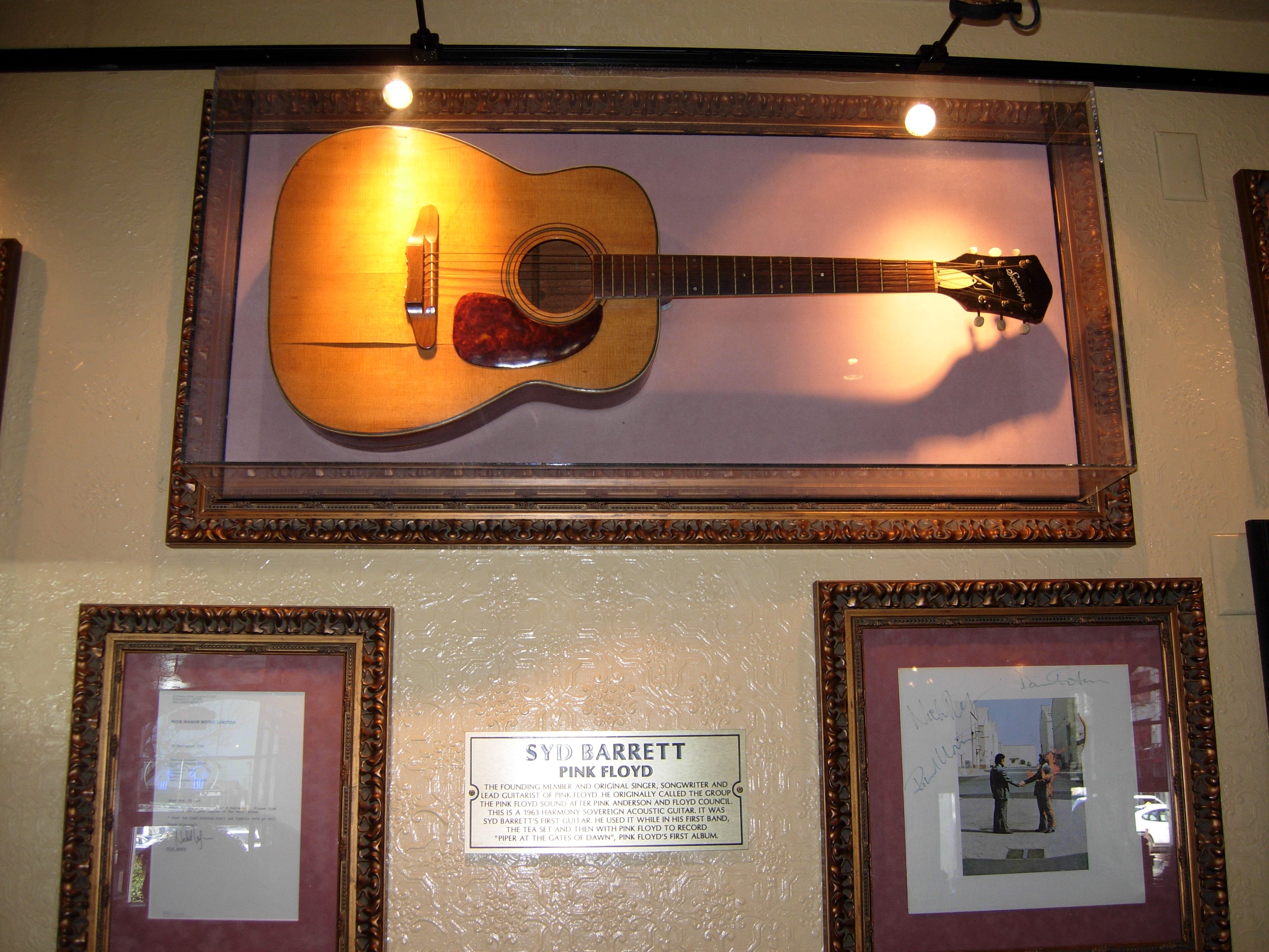 Syd Barrett's first guitar and other Pink Floyd memorabilia. bellow is quotation from display: Syd Barret Pink Floyd The founding member and original singer, songwriter and lead guitarist of Pink Floyd. He originally called the group the Pink Floyd sound after Pink Anderson and Floyd Council. This is a 1963 Harmony Sovereign acoustic guitar. It was Syd Barrett's first guitar. He used it while in his first band, the Tea Set and then with Pink Floyd to record "Piper At The Gates Of Dawn", Pink Floyd's first album.